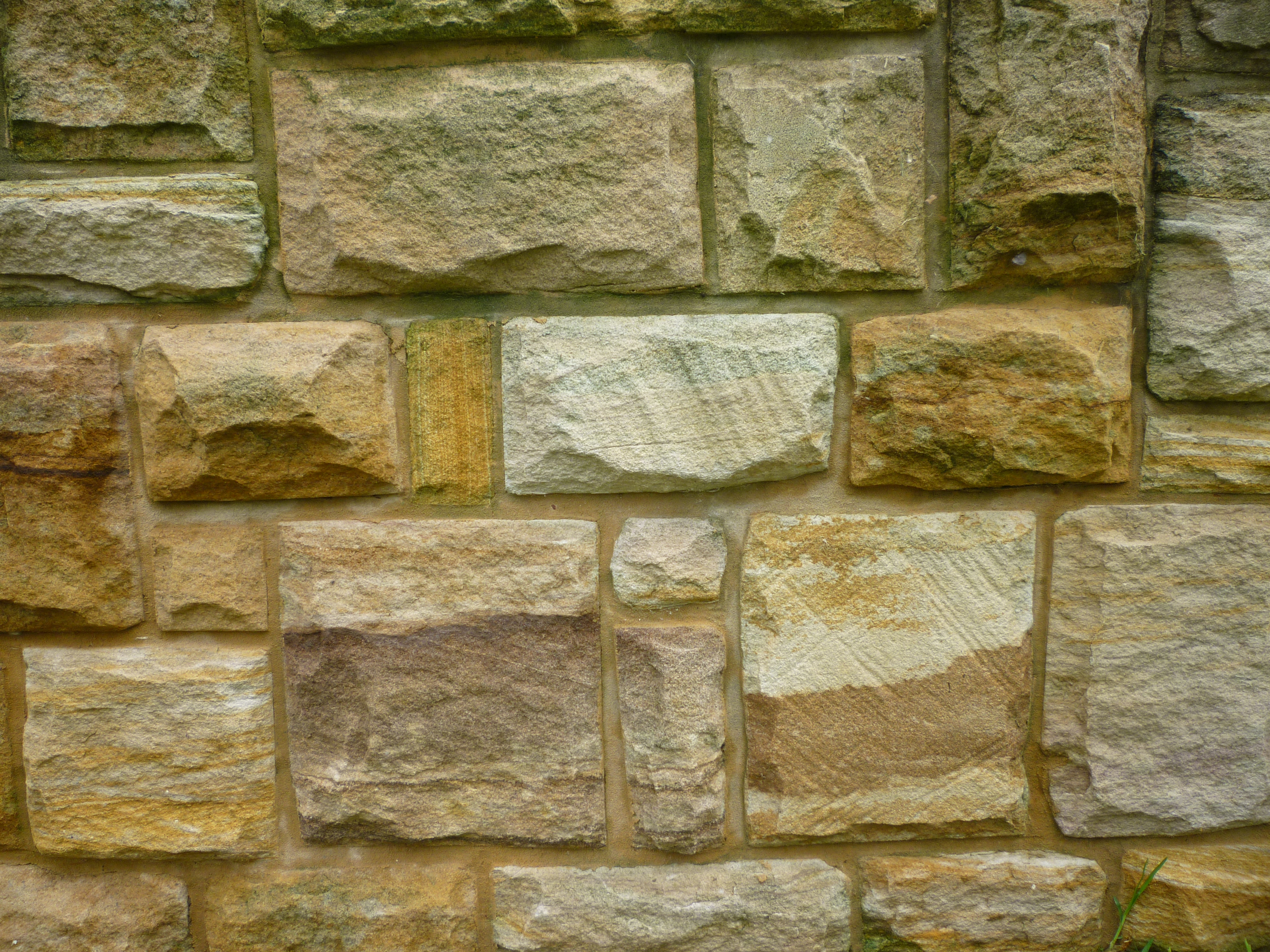 Contemporary use of Sydney sandstone